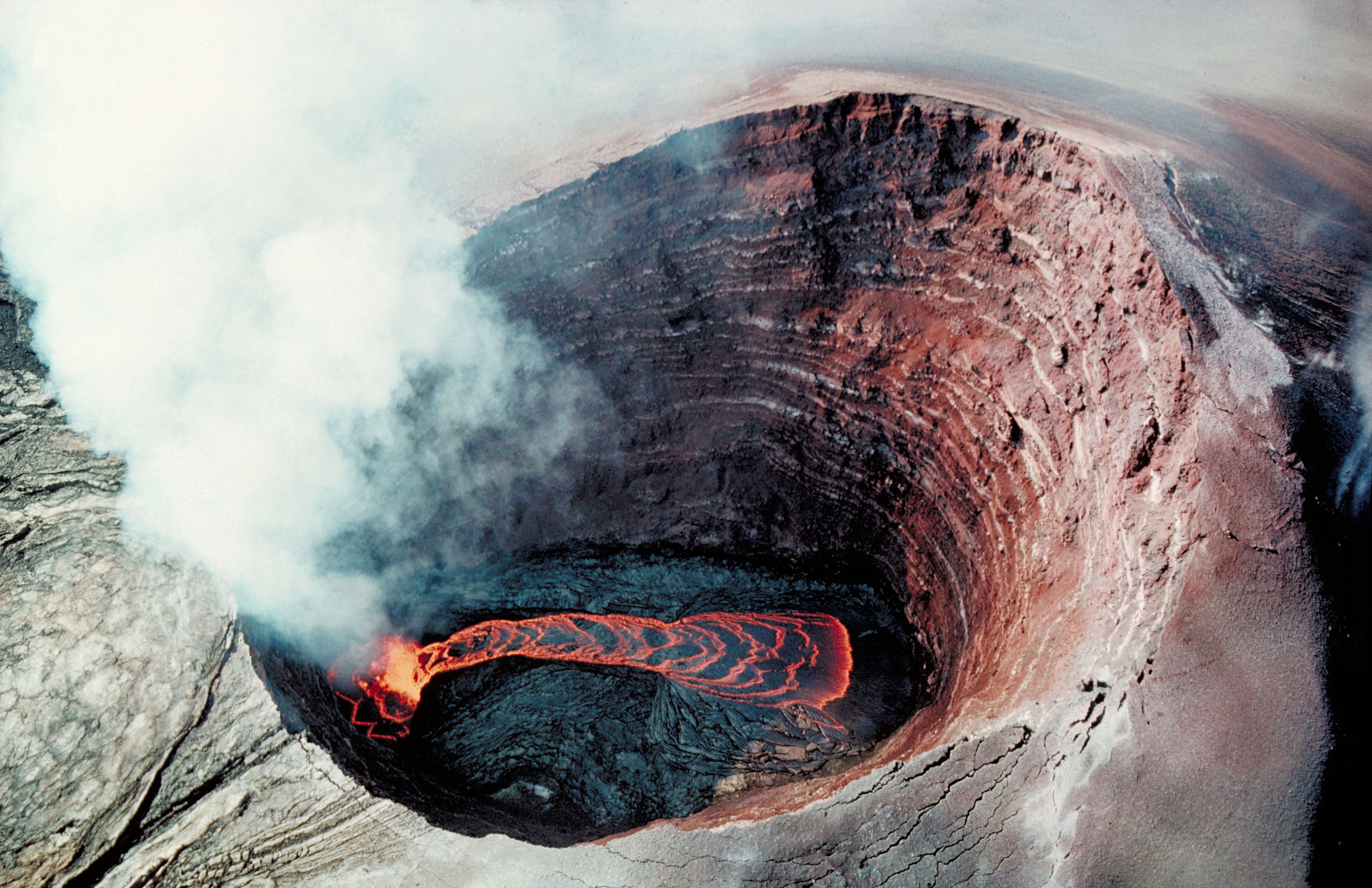 Aerial view of lava lake in Puʻu ʻŌʻō crater. The crater is about 250 m in diameter.